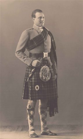 The Marquess of Graham, Earl of Kincardine upon his 21st birthday Later 7th Duke of Montrose